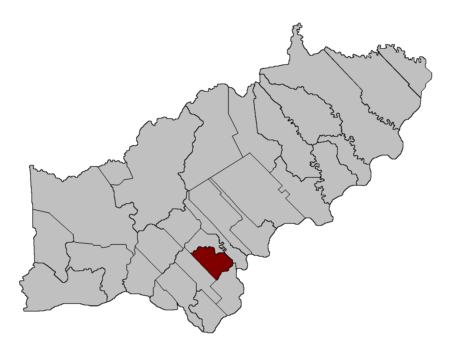 Blank map of Itapúa Department, Paraguay. Administrative divisions of this department.